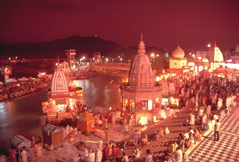 Evening view of Har-ki-Pauri, Haridwar. This is an older photograph as it shows the old Ganga Temple in the middle of the river, which is now being replaced by a new structure.